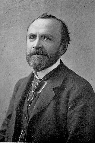 From